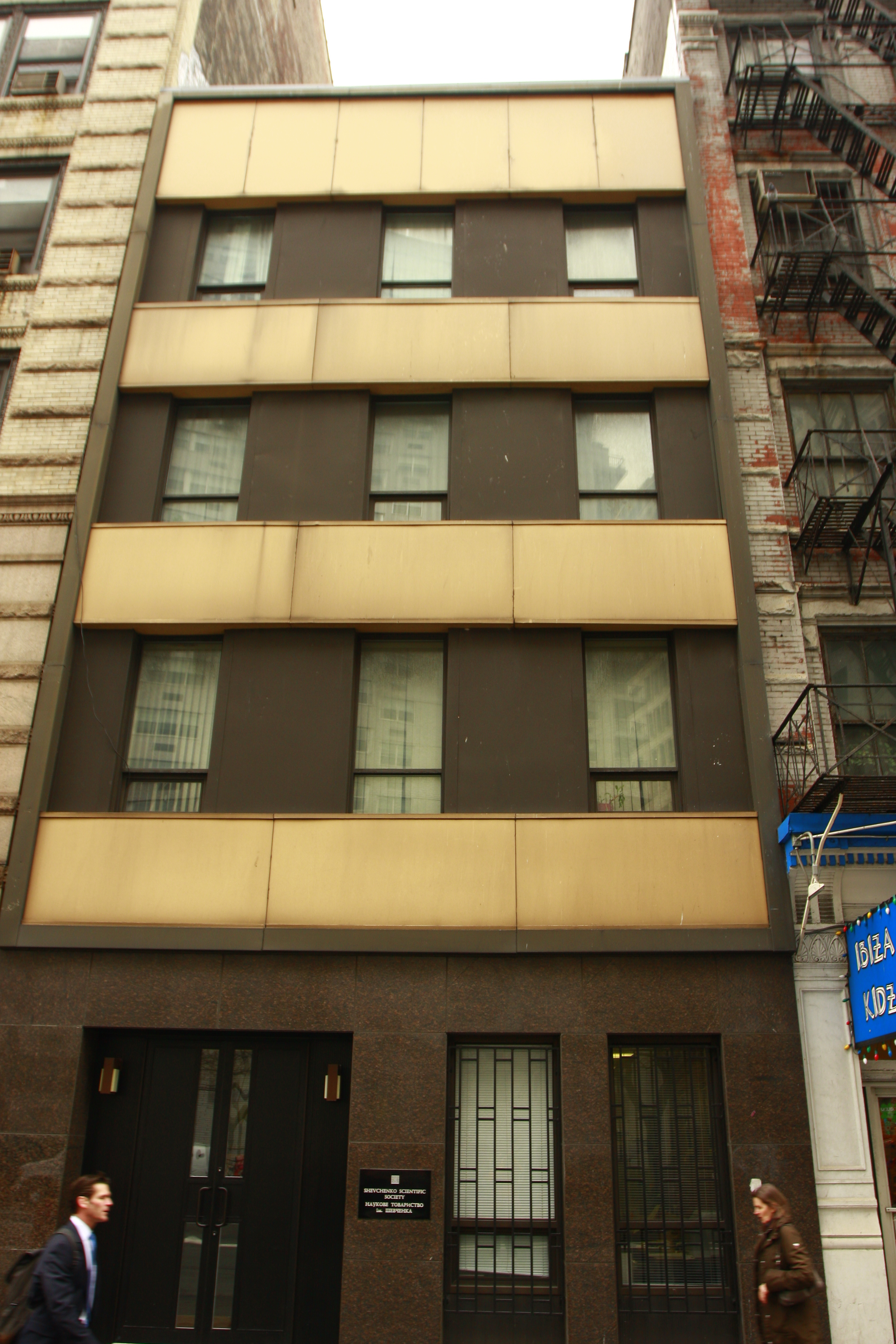 This photo is of Wikipedia Takes Manhattan location code 139, Shevchenko Scientific Society.